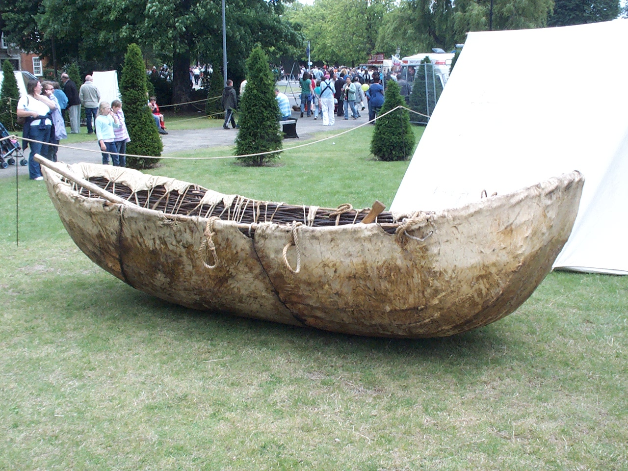 A reconstruction of a C1 AD British Curragh (a big coracle),made of wicker work and covered with 3 cow hides. It is capable of carrying 10 people. It was on display at in the "Heritage Village" area of the Bedford River Festival.